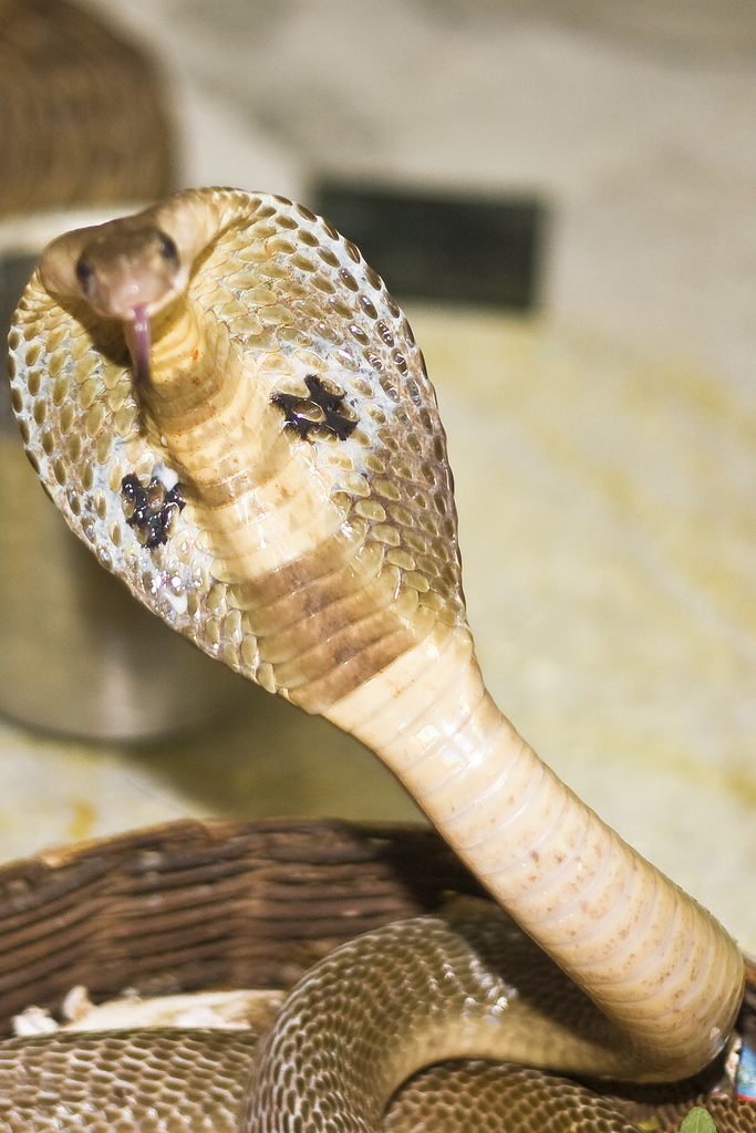 Its that day of the year again. Last year